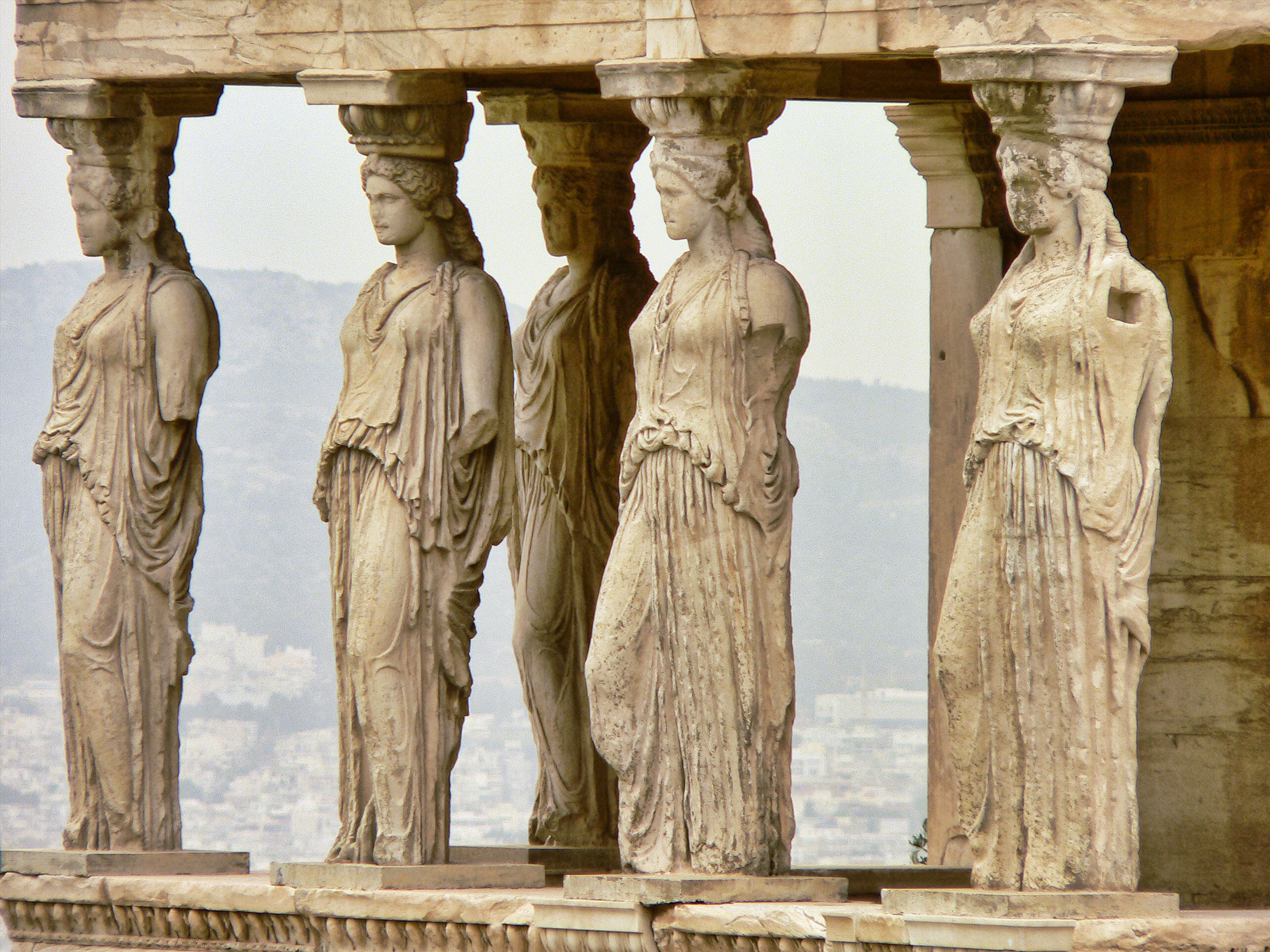 Τhe Caryatids at the Erechtheum«Ερέχθειο»